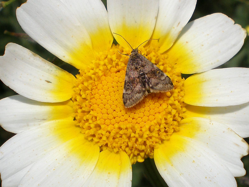 Near Higuera de Calatrava, Jaén, Spain. - March 19, 2008